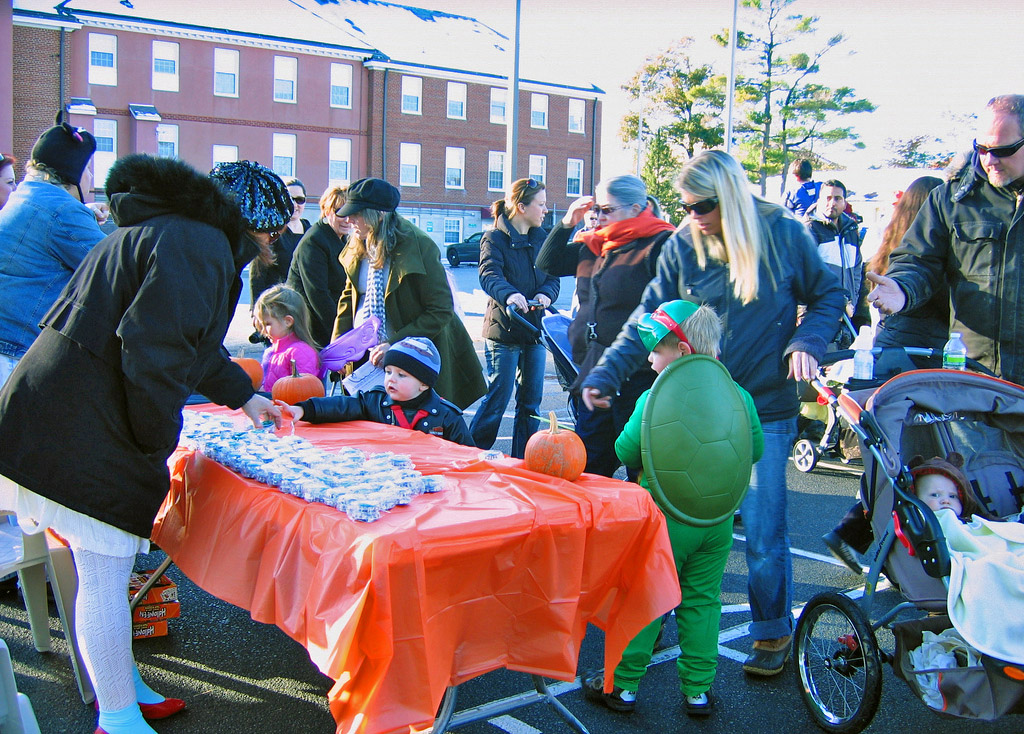 Children and parents at a Halloween event in Pequannock, NJ, USA, following the heavy snowstorm the day before that severely affected celebrations of the holiday.